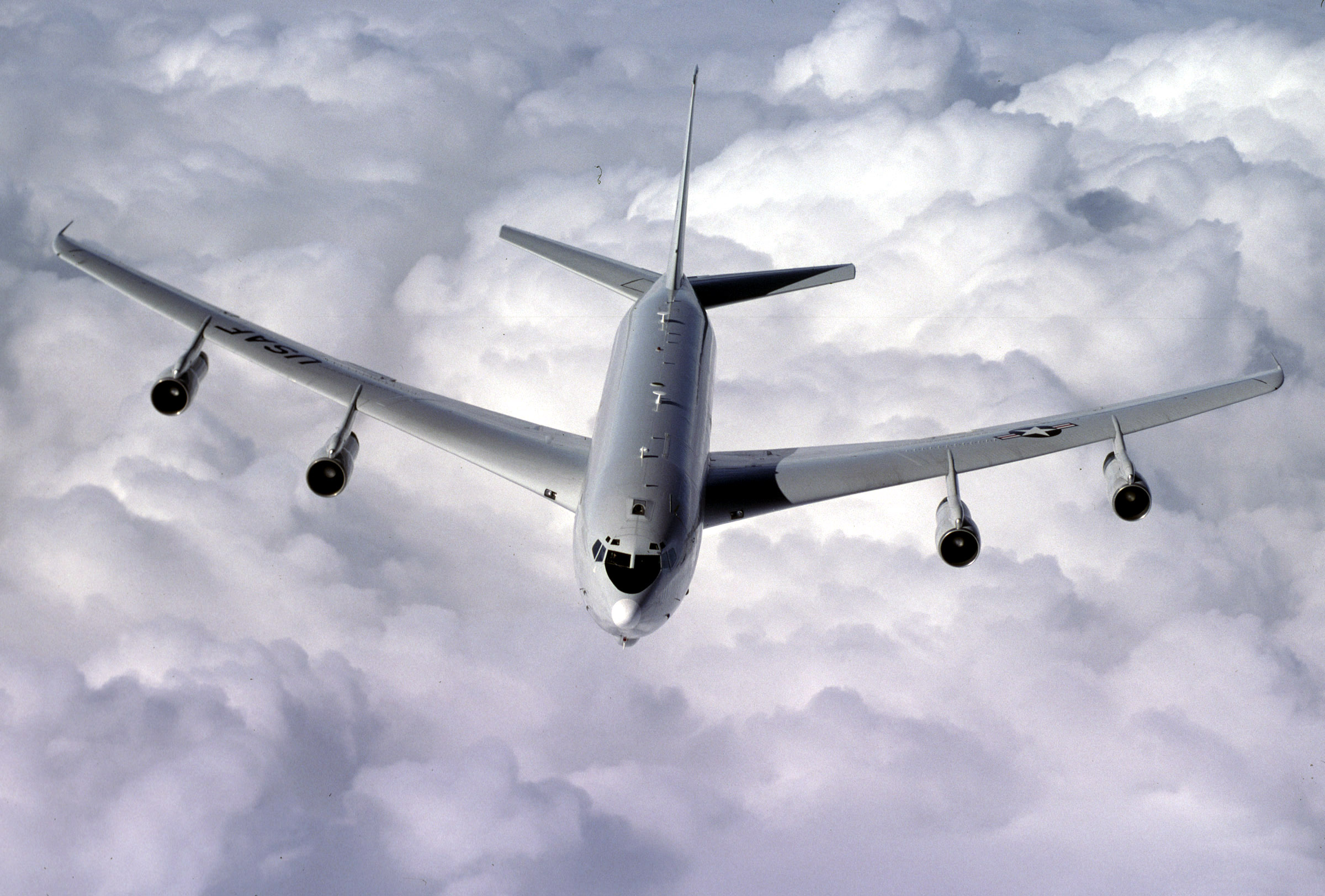 ROBINS AIR FORCE BASE, Georgia. -- An E-8C Joint Surveillance Target Attack Radar System from the 93rd Air Control Wing flies a refueling mission over the skies of Georgia. The Department of Defense will soon deploy Joint STARS and Global Hawk unmanned aerial vehicle surveillance systems over the Afghan theater of operations in support of Operation Enduring Freedom. The E-8C is an airborne battle management and command and control platform that conducts ground surveillance to develop an understanding of the enemy situation and to support attack operations and targeting that contributes to the delay, disruption, and destruction of enemy forces.